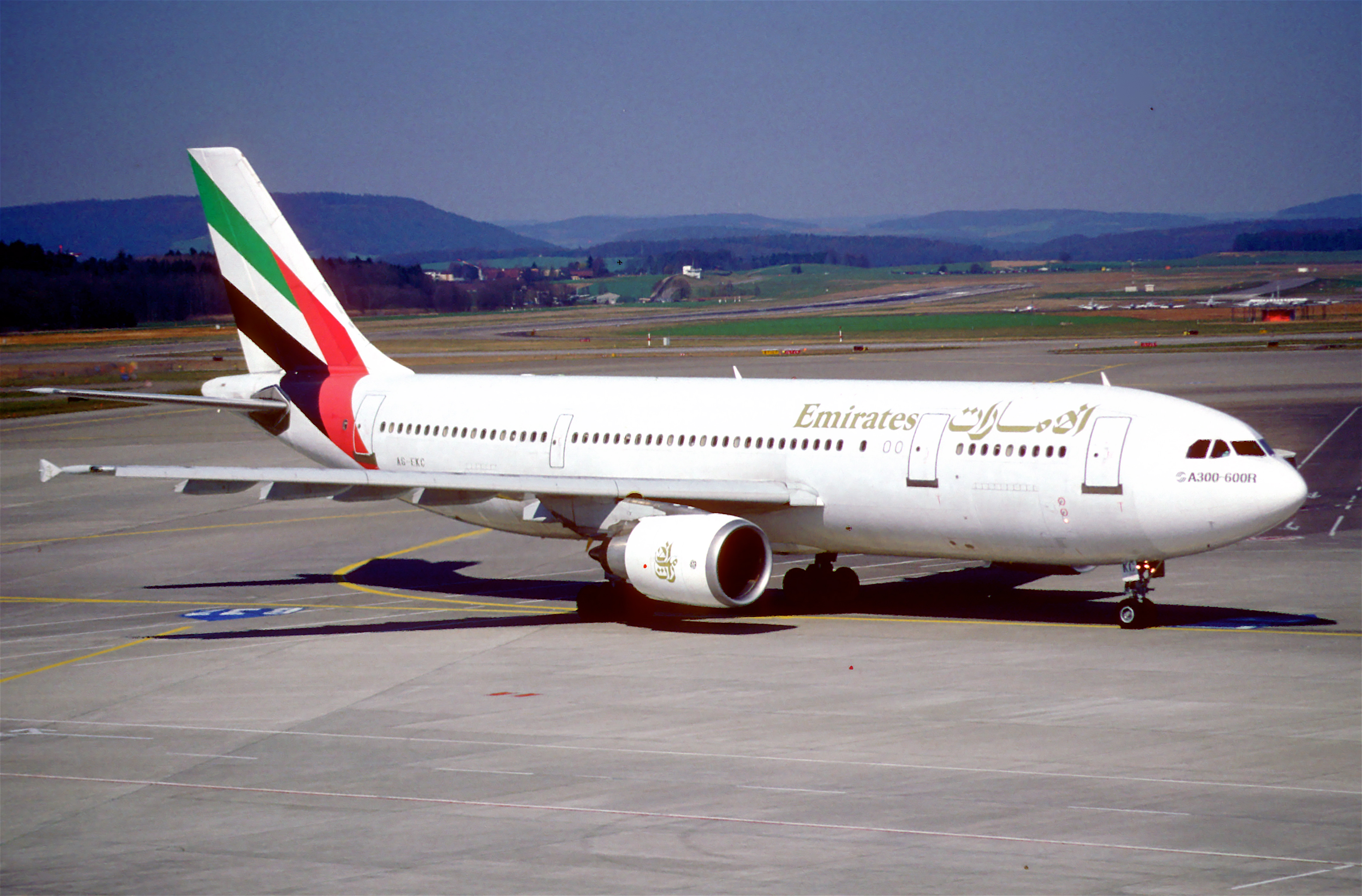 15bn - Emirates Airbus A300-605R; A6-EKC@ZRH;22.03.1998